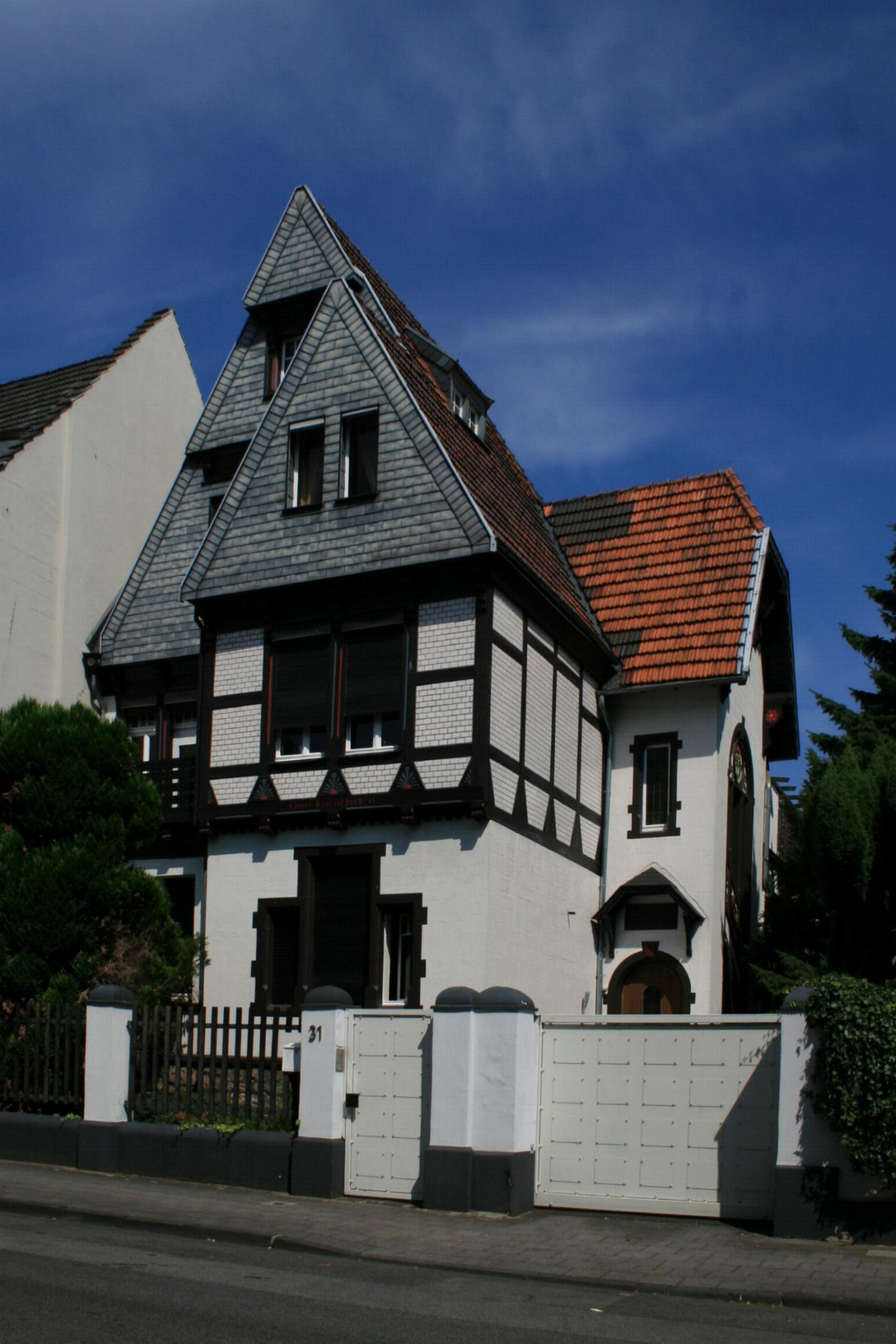 Cultural heritage monument No. F 020 in Mönchengladbach